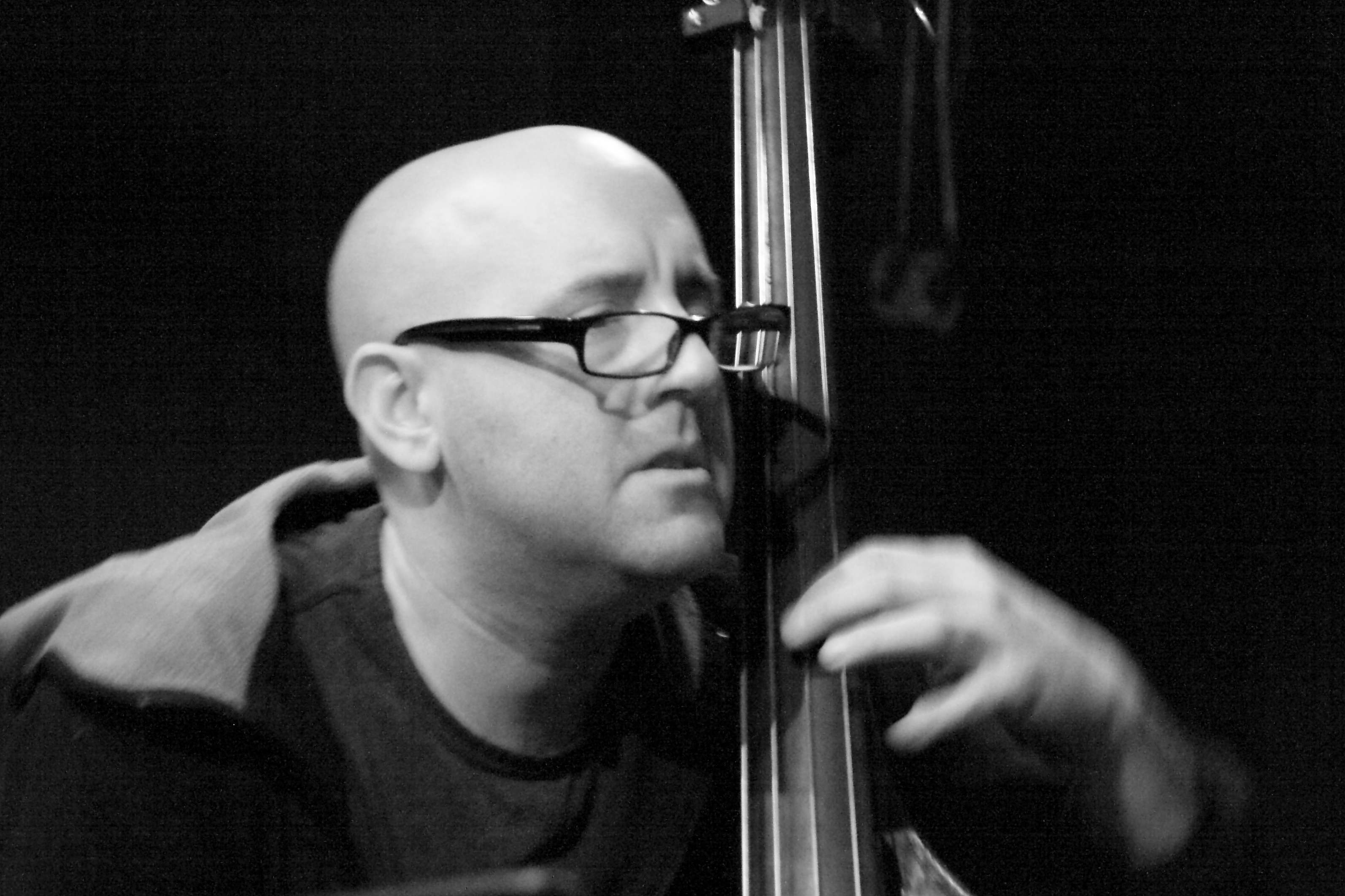 John Hébert with Anti-House at Club W71, Weikersheim.